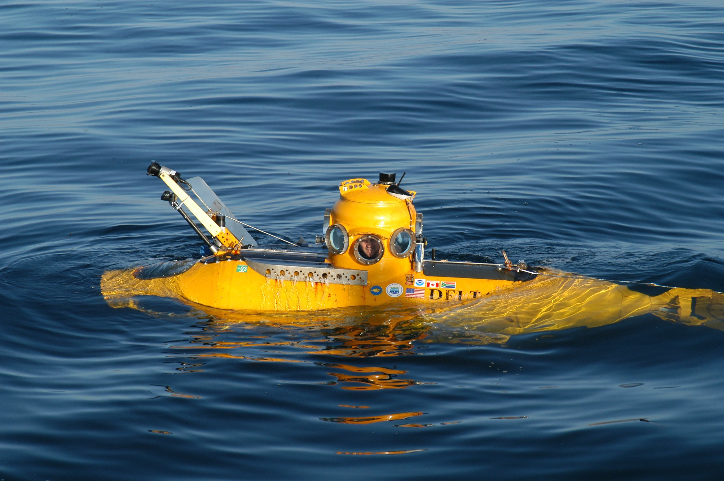 Delta submersible seen on surface in waters off Santa Cruz Island. California, Channel Islands NMS.